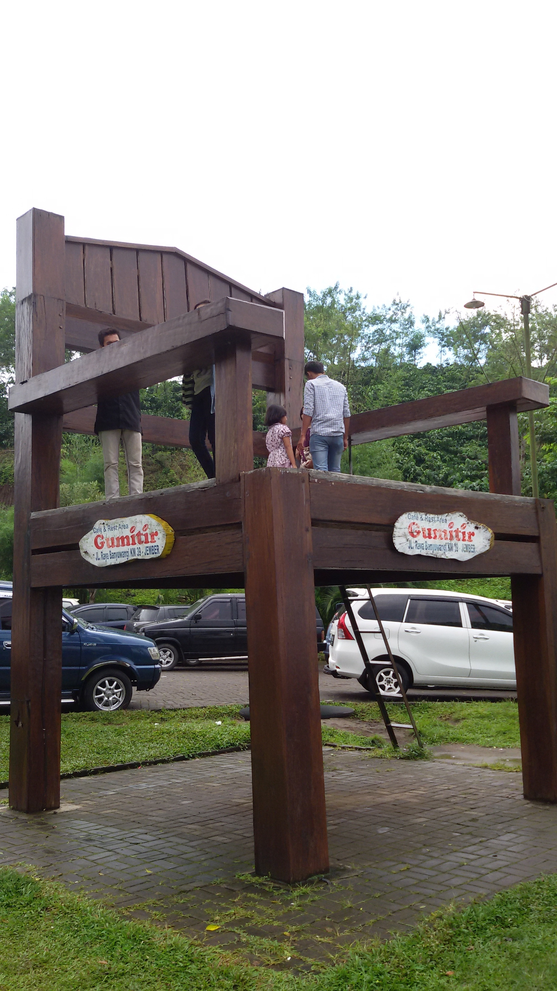 Giant wooden chair at Gumitir Cafe in 2015